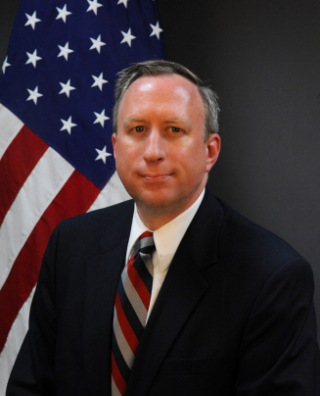 George A. Krol, U.S. diplomat. As of 2011, U.S. ambassador to Uzbekistan.